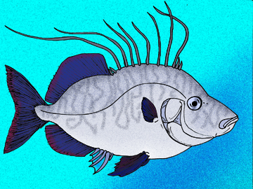 Reconstruction of the Cretaceous Lampriformes Nardovelifer altipinnis, from the Campanian of Nardò, Italy